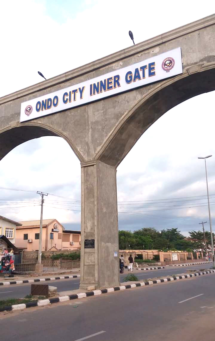 City gate in Ondo town.